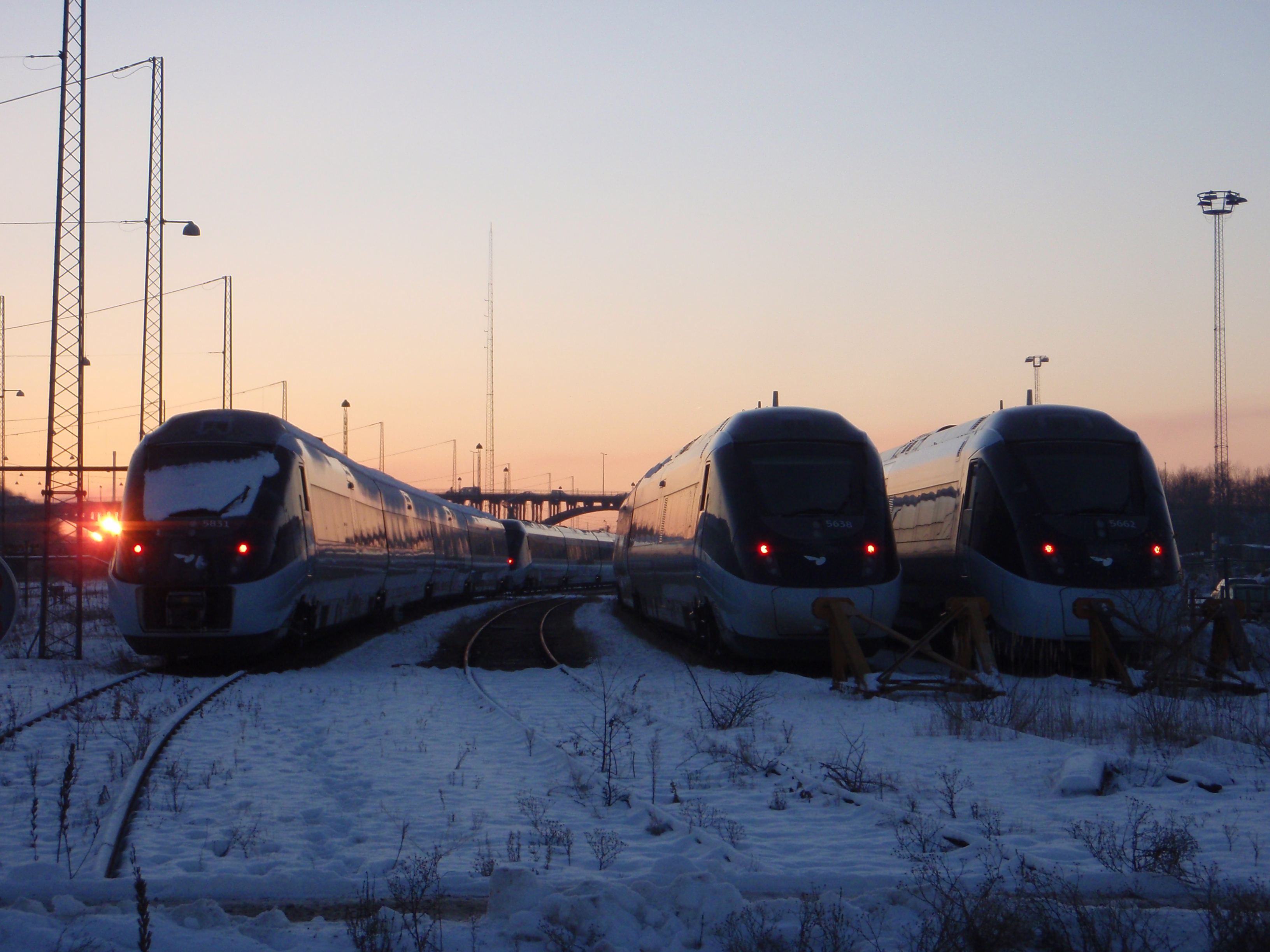 IC4 units december afternoon in Aarhus